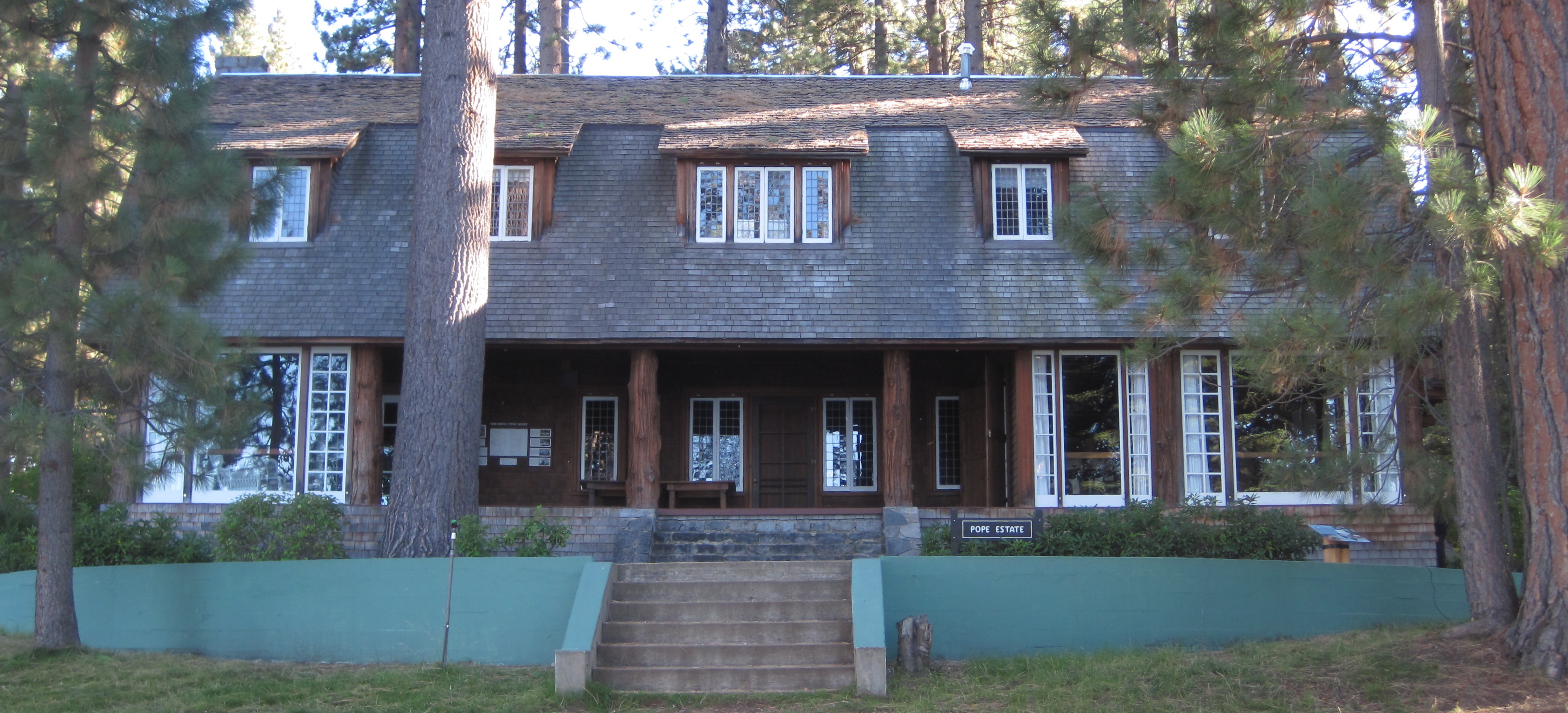 In the late 1800's, families traveled from the San Francisco Bay area to Lake Tahoe by railroad. At the final terminal, they transferred to boat to travel to their summer homes.